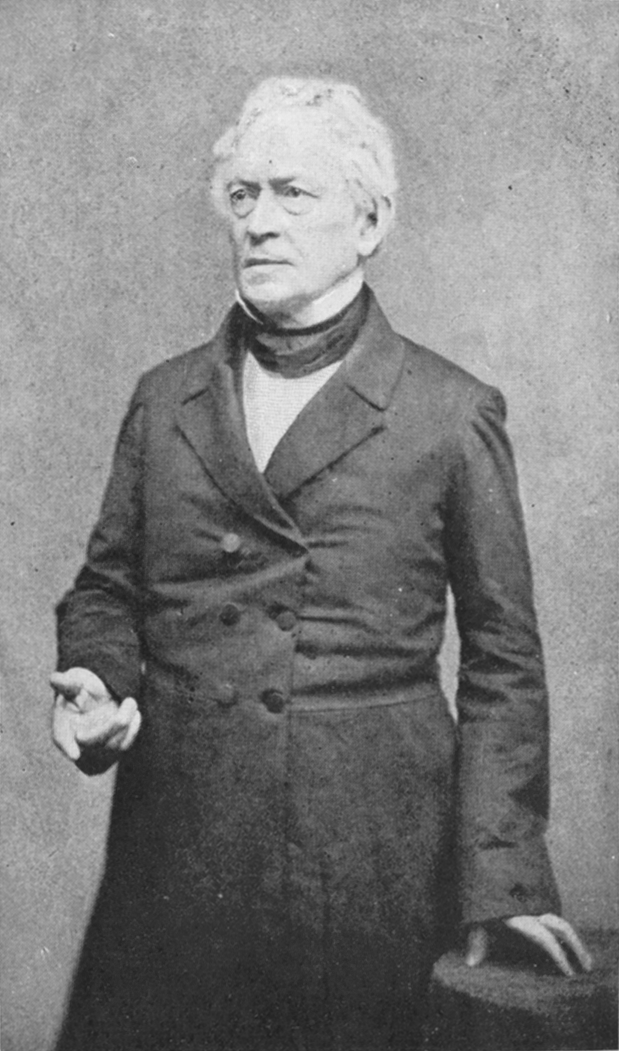 Three-quarter length black-and-white portrait of Edward Everett